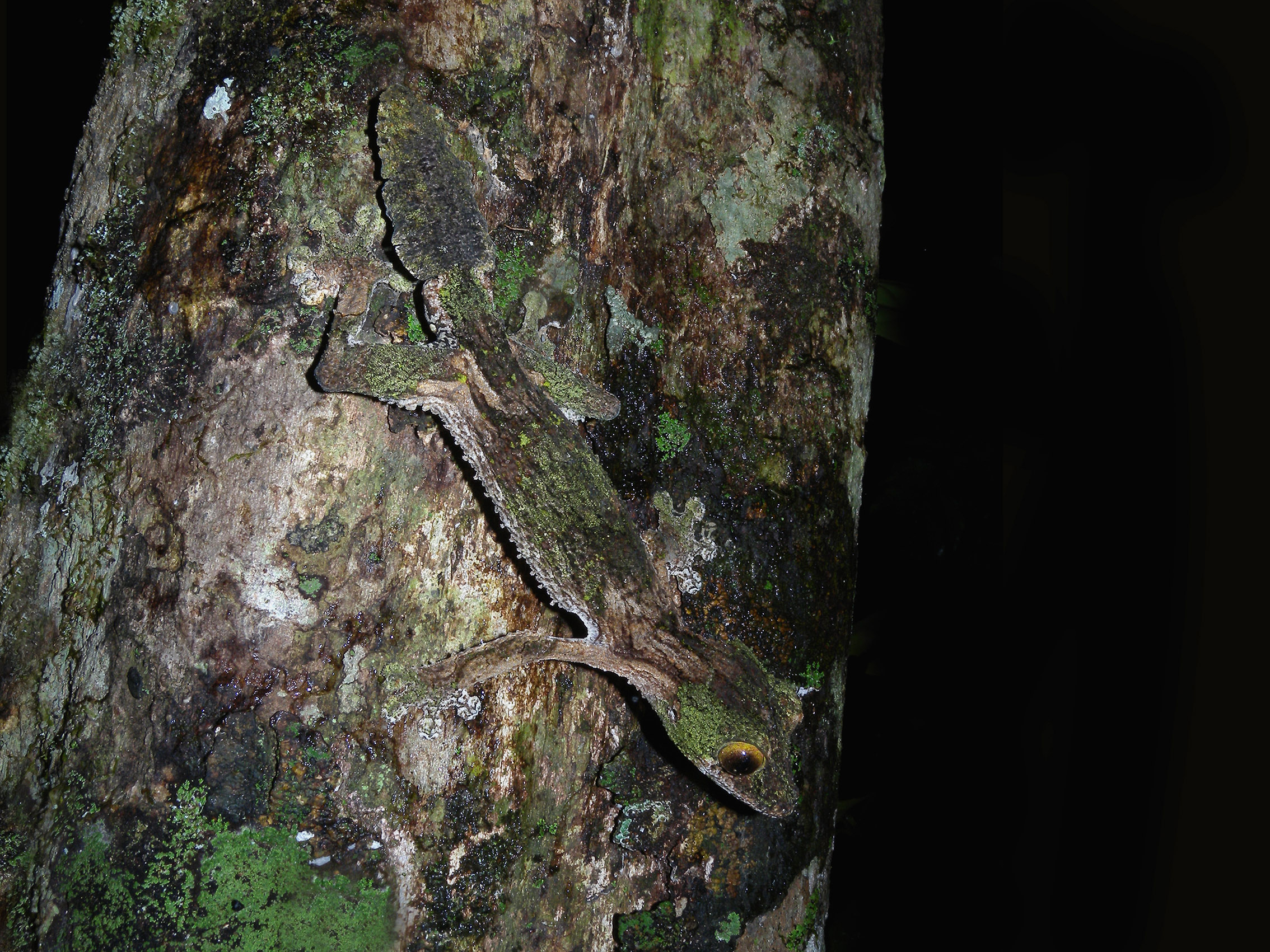 Mossy Leaf-tailed Gecko, Andasibe, Madagascar